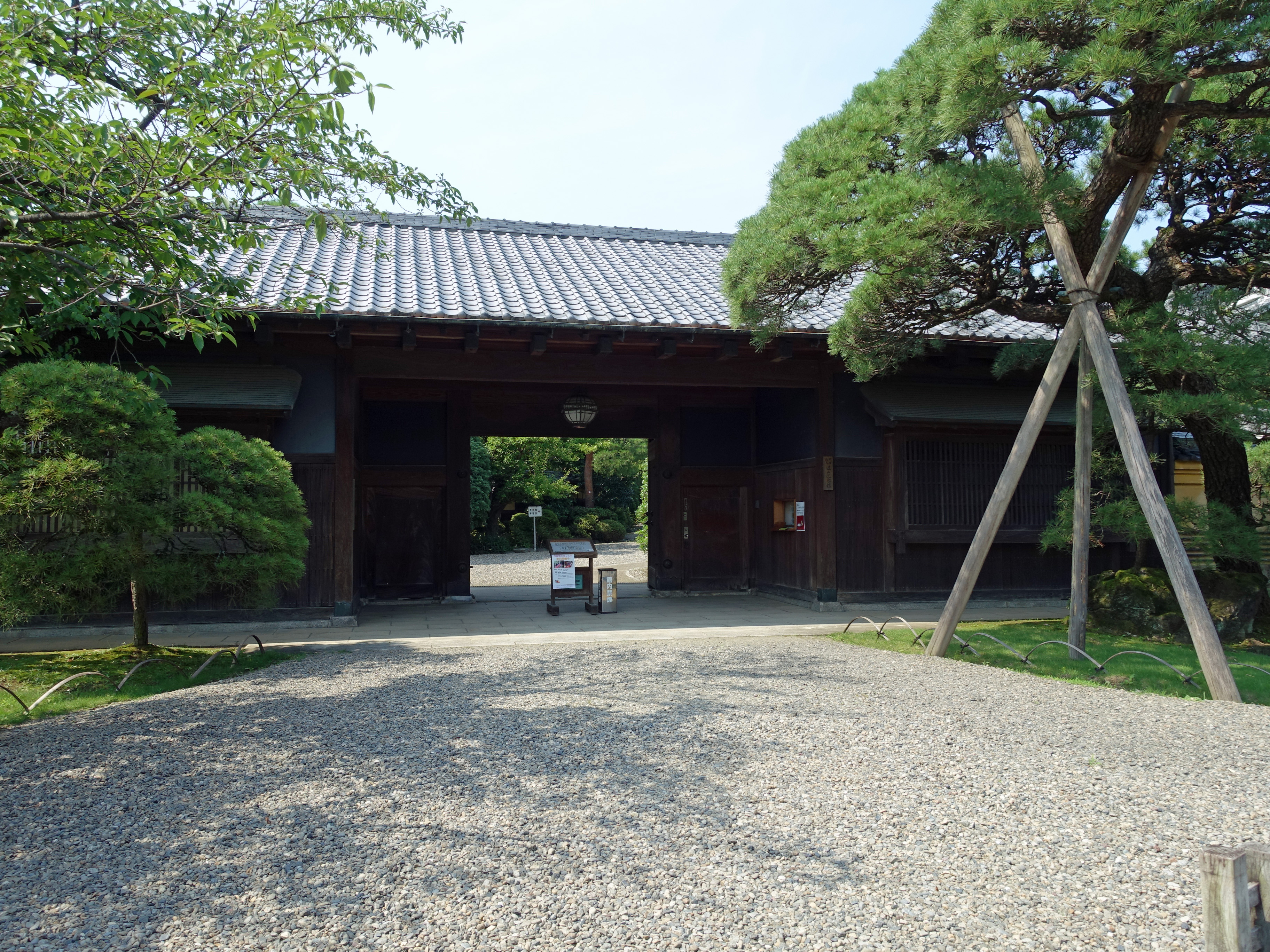 Toyama Memorial Museum in Kawajima Town, Saitama Prefecture, Japan